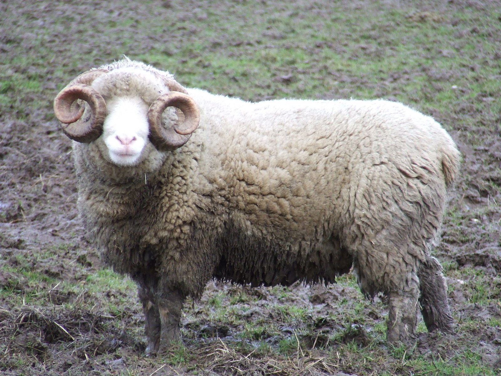 I See No One A Ram with large horns covering his eyes Bressingham Common, Norfolk.